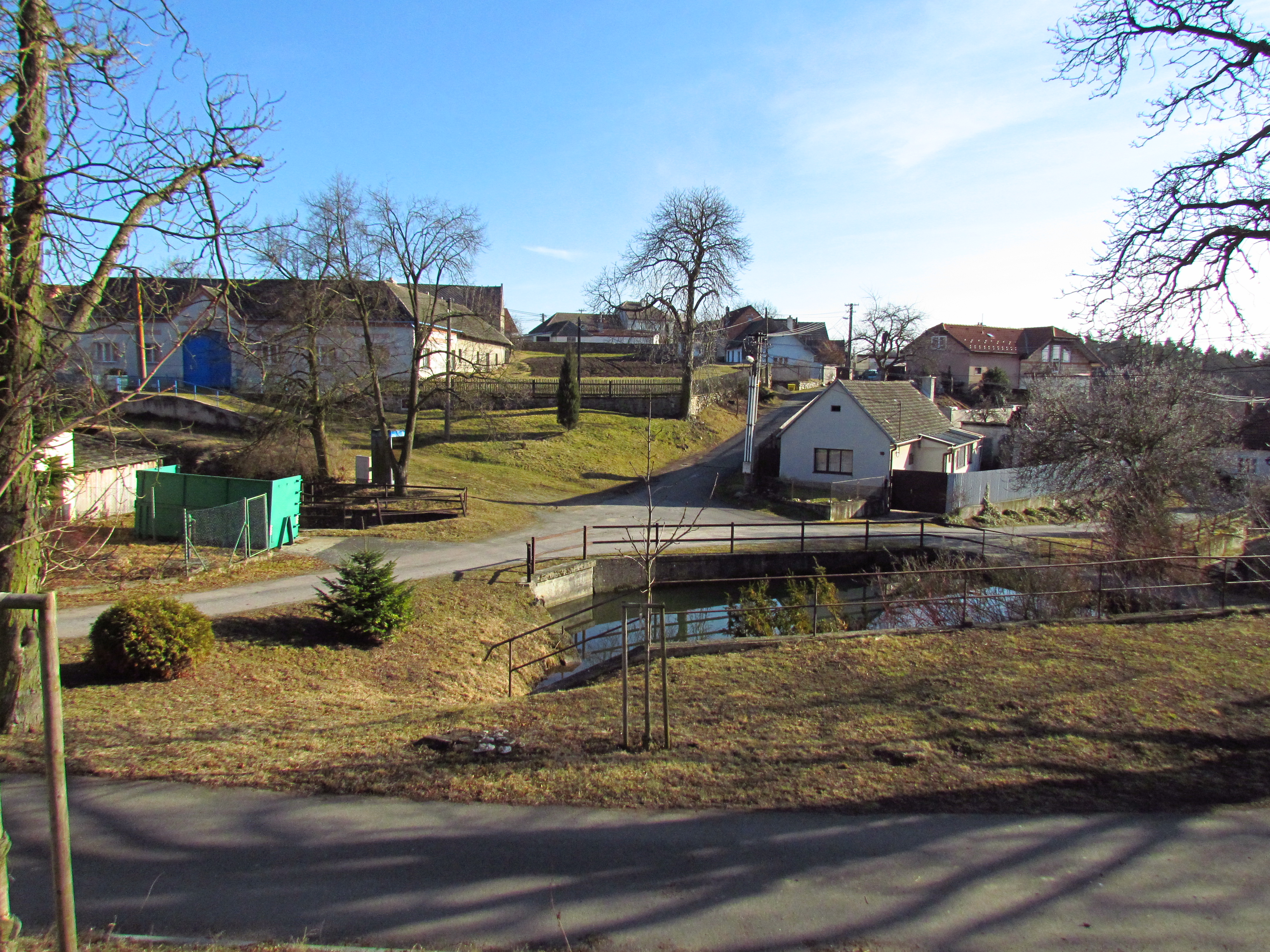 Center of Popůvky, Třebíč District.